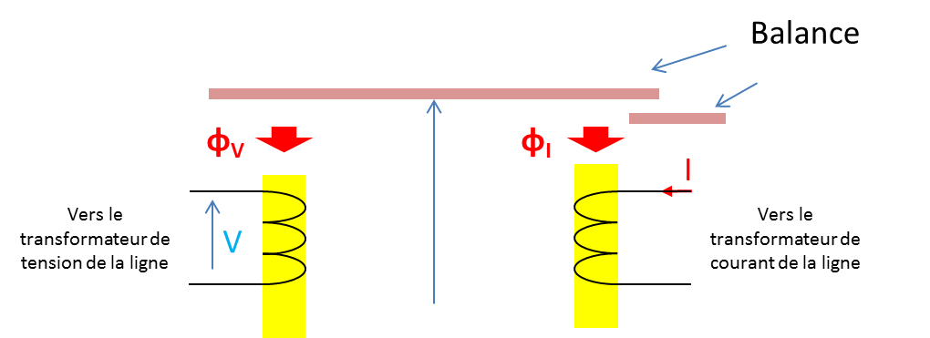 Balance beam relays, principle